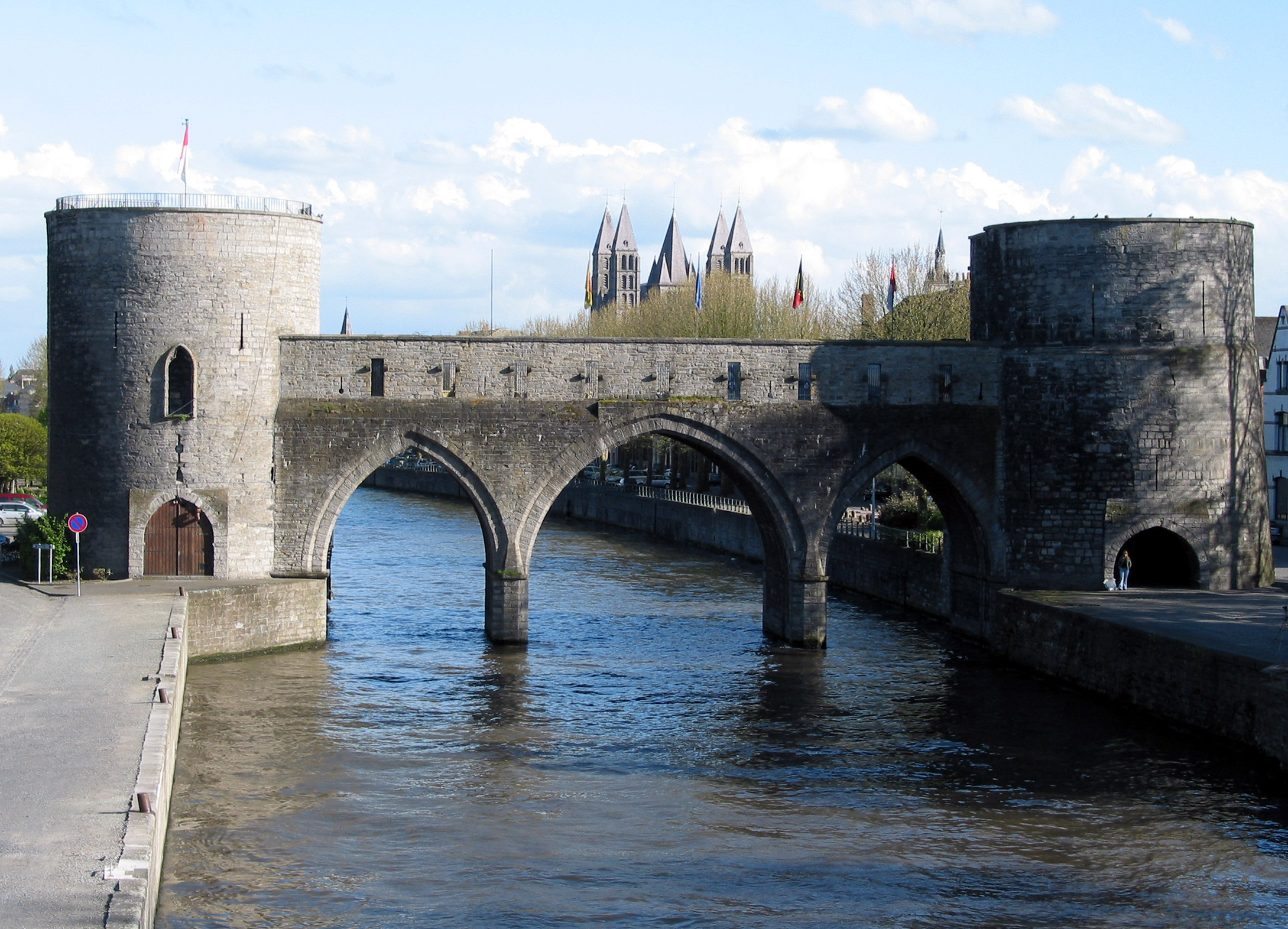 Tournai, the "Pont des Trous" bridge on the Escaut river with Cathedral of Our Lady as aim vision.